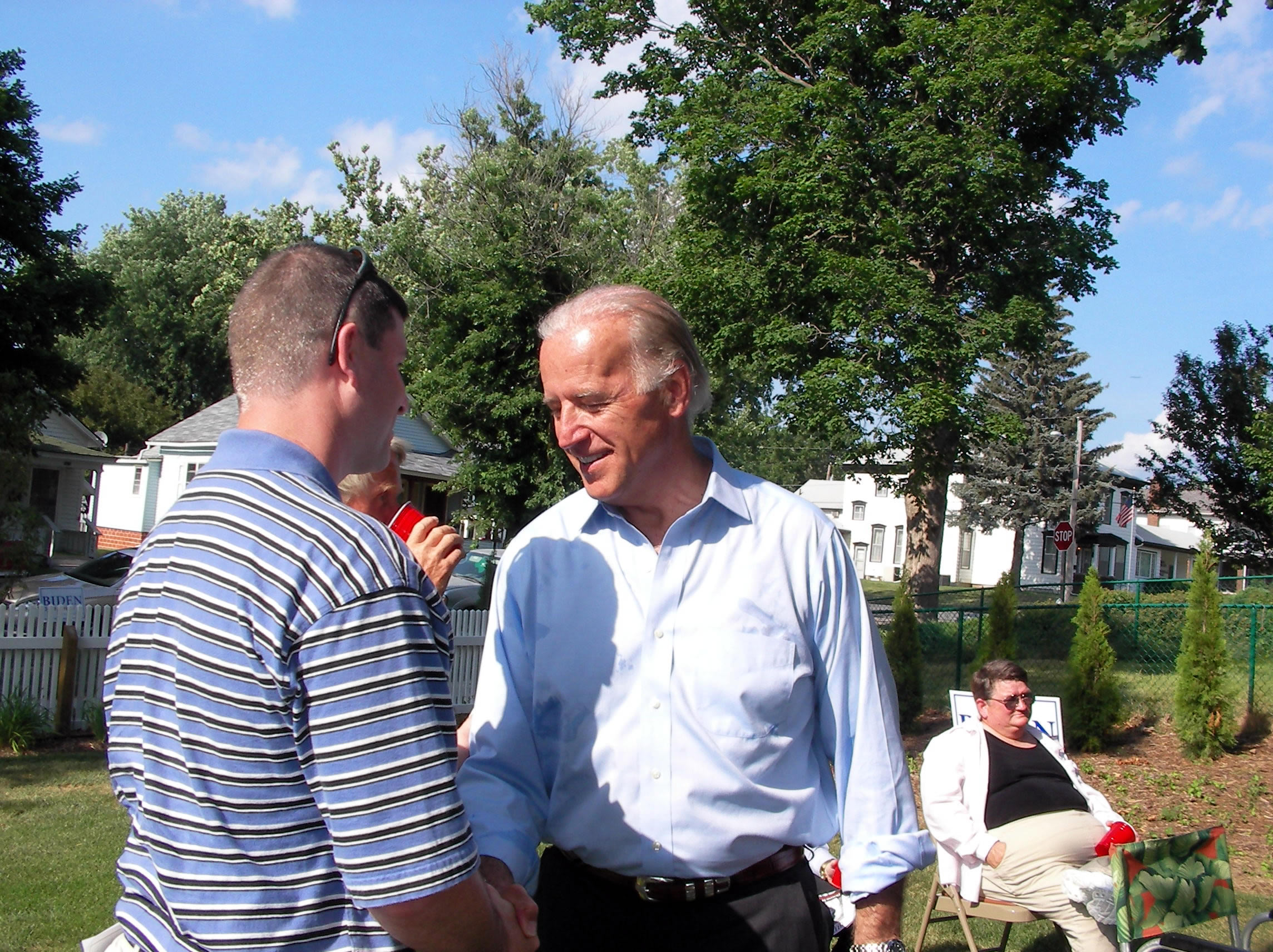 Iowa's premier political news site: Sen. Joe Biden, D-Del., campaigns for president at a July 3 house party in Creston.